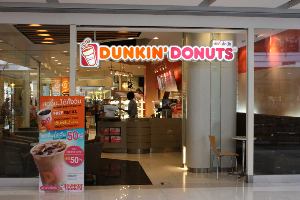 Dunkin'Donuts at Bangkok, Thailand